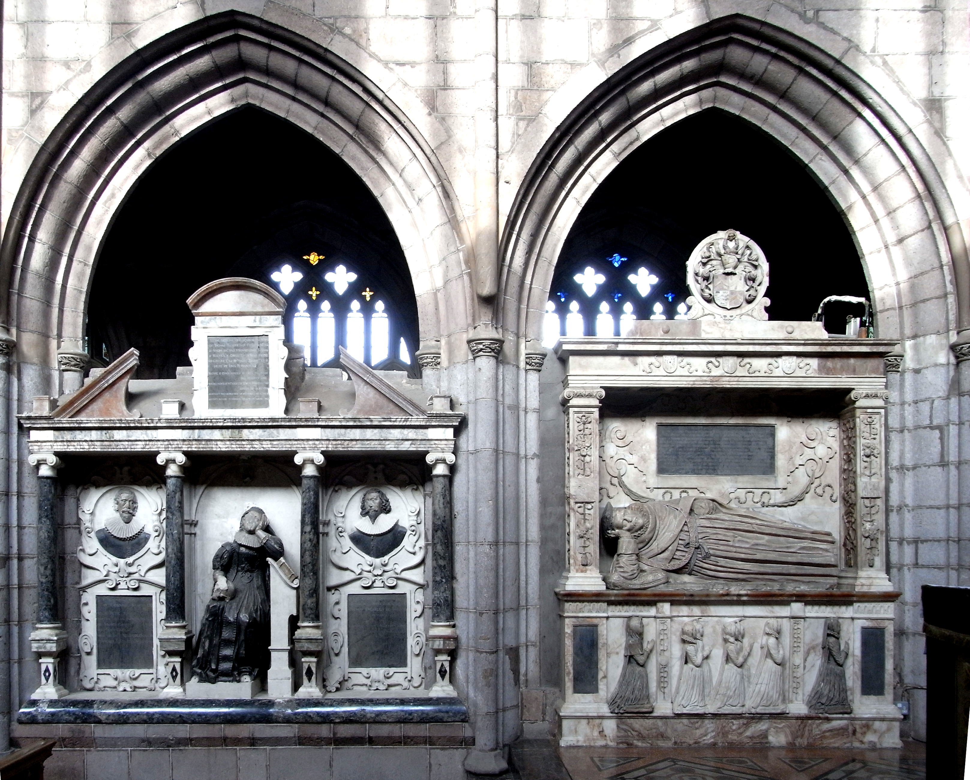 Monuments in north wall of chancel, Holy Cross Church, Crediton, Devon. Right to Sir William Peryam (1534-1604) of Little Fulford; left to the Tuckfield family of Little Fulford, his eventual successors.